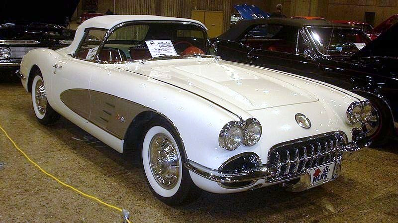 1958 Corvette photo (adjusted brightness)